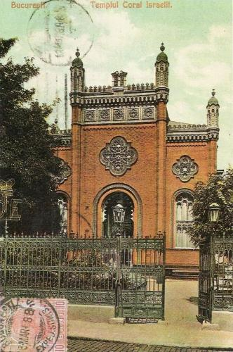 Choral Synagogue of Bucharest at the end of the XIX century.